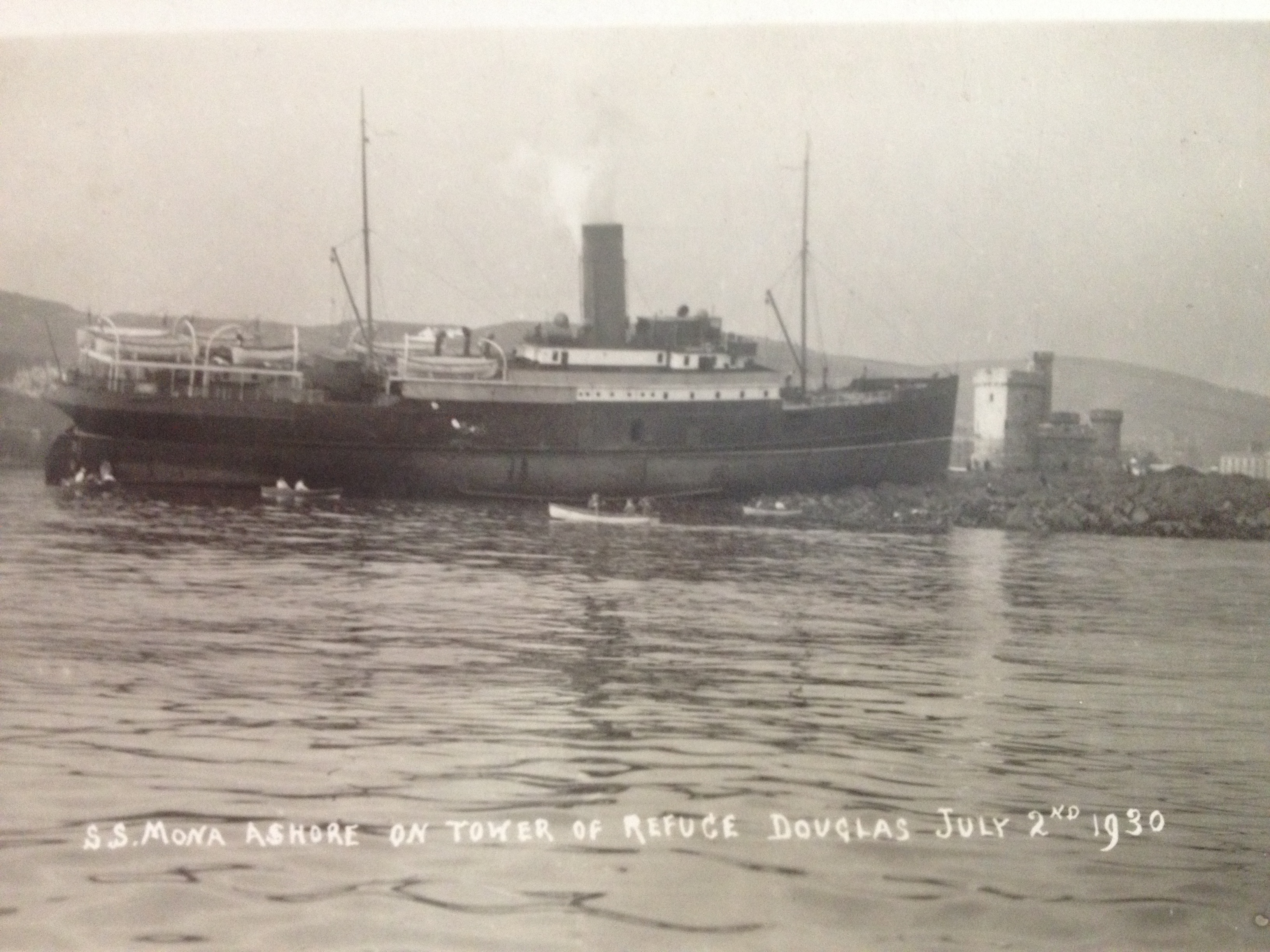 Steam Ship Mona aground on the Connister / St Mary's Rock